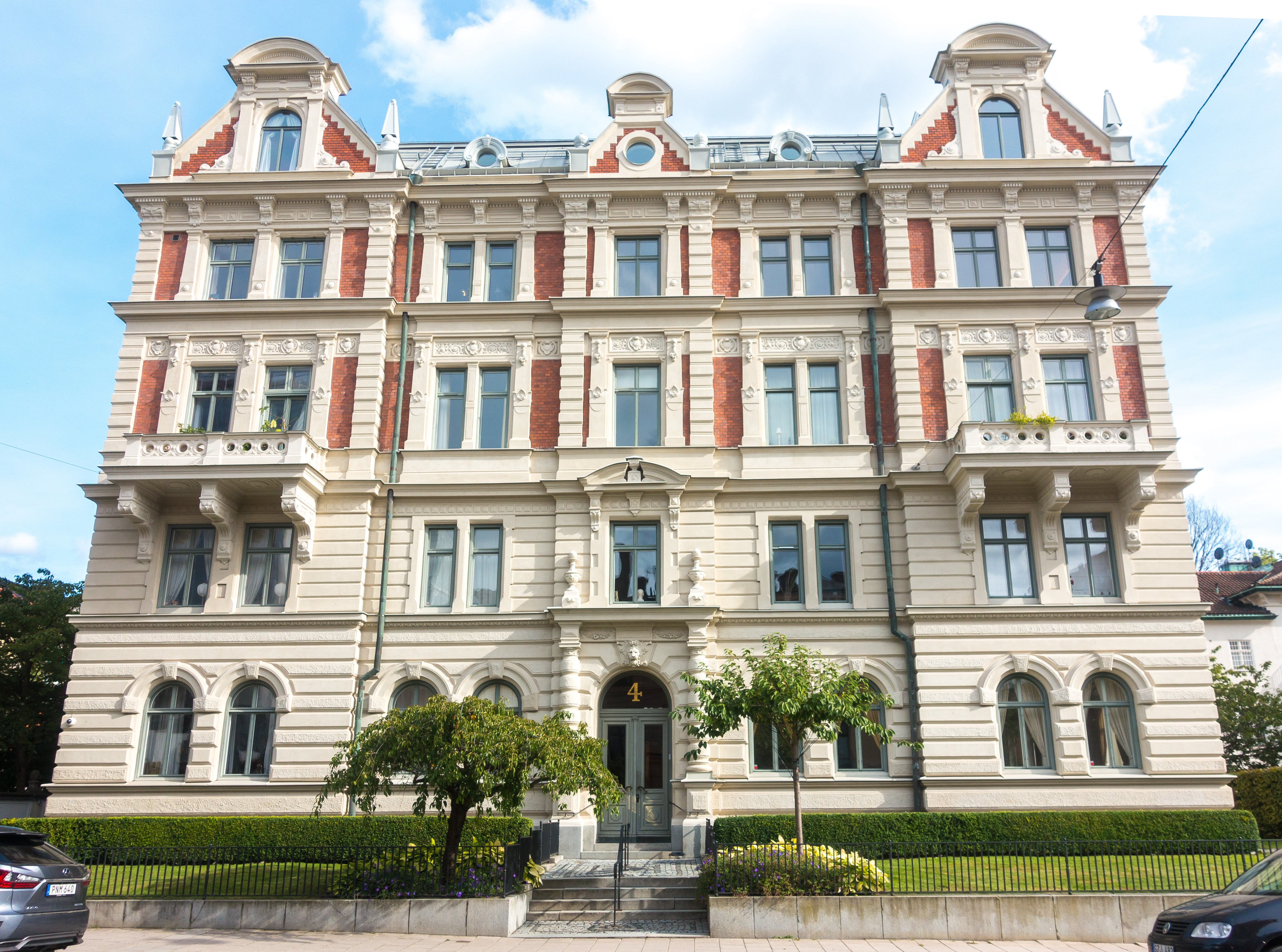 Wallenberg house on Villagatan 4 (Linden 5) on Östermalm in Stockholm.